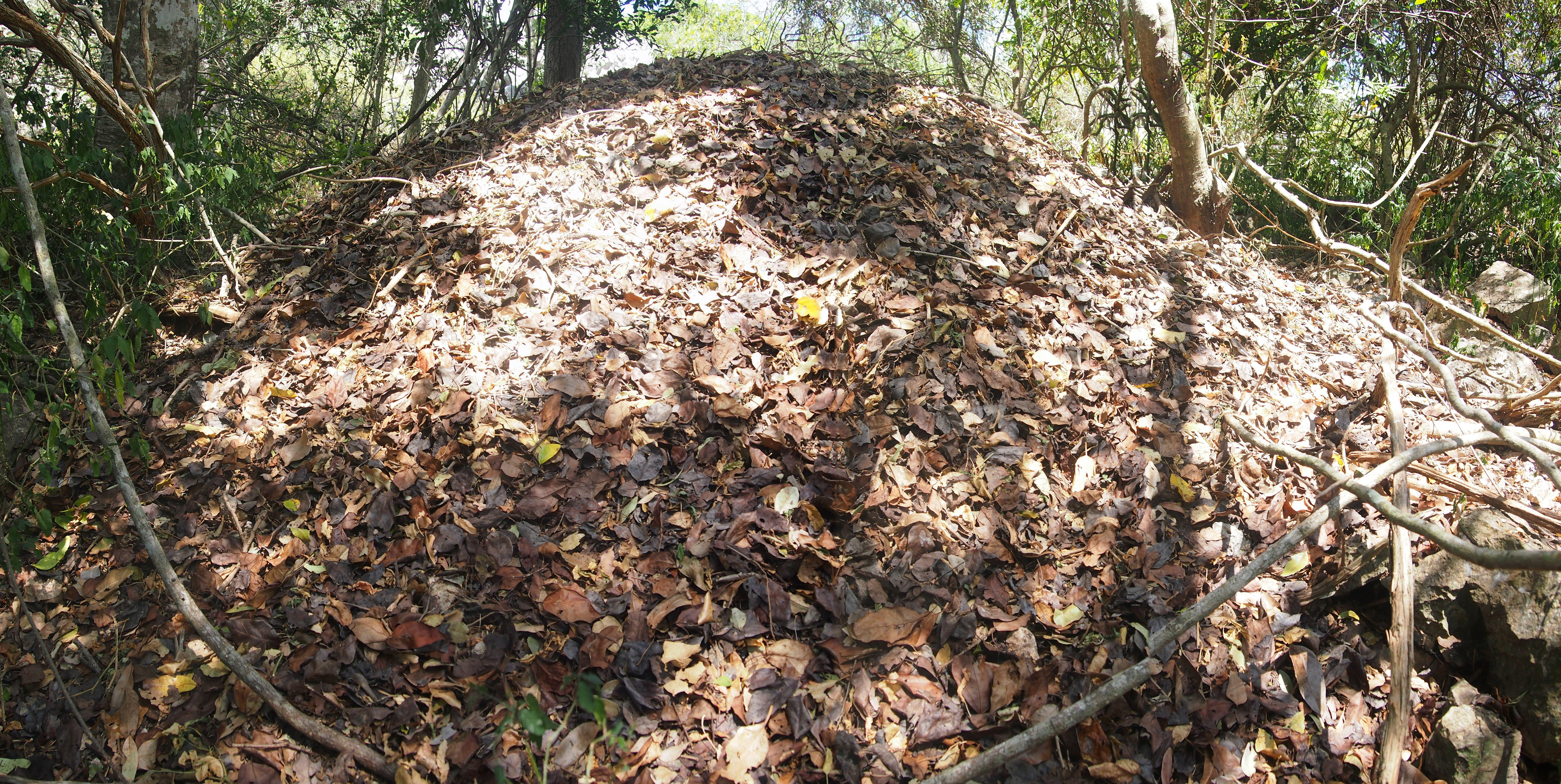 Scrub turkey nest